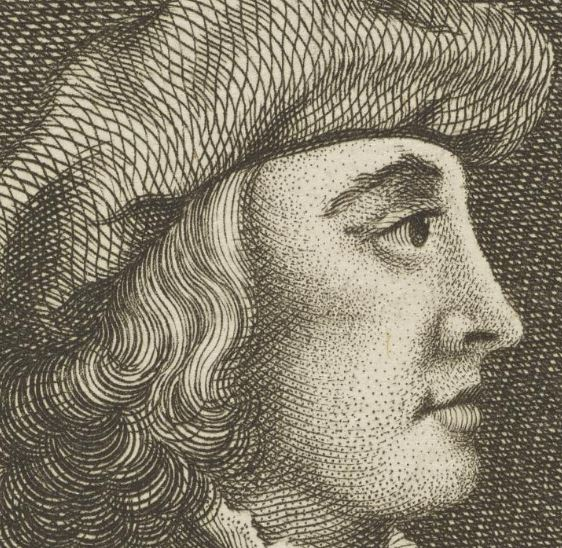 Kenneth MacAlpin (1700 depiction)